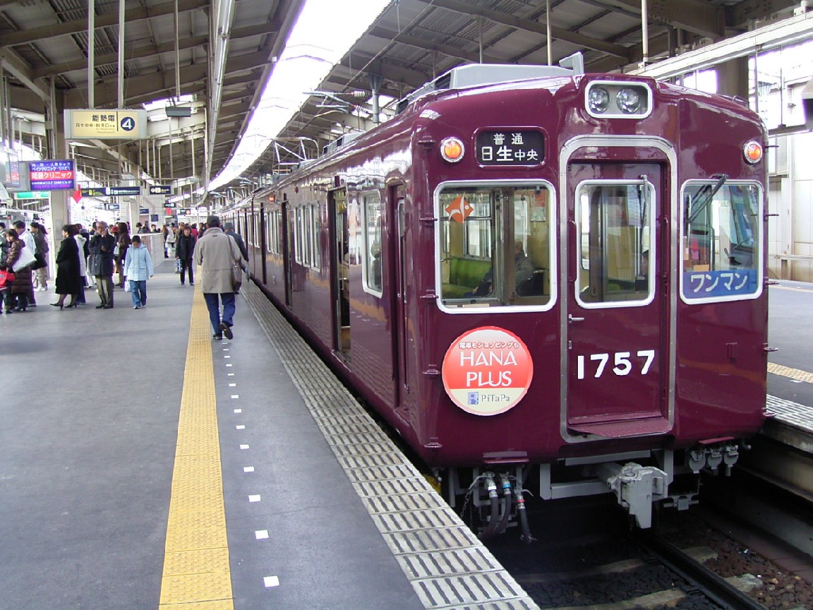 Nose Electric Railway 1700 series EMU (1757) at Kawanishi-Noseguchi Station